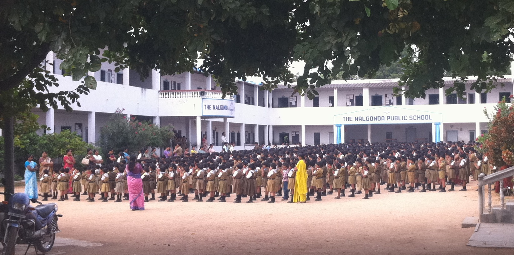 Students of Nalgonda Public School Standing at Morning Assembly